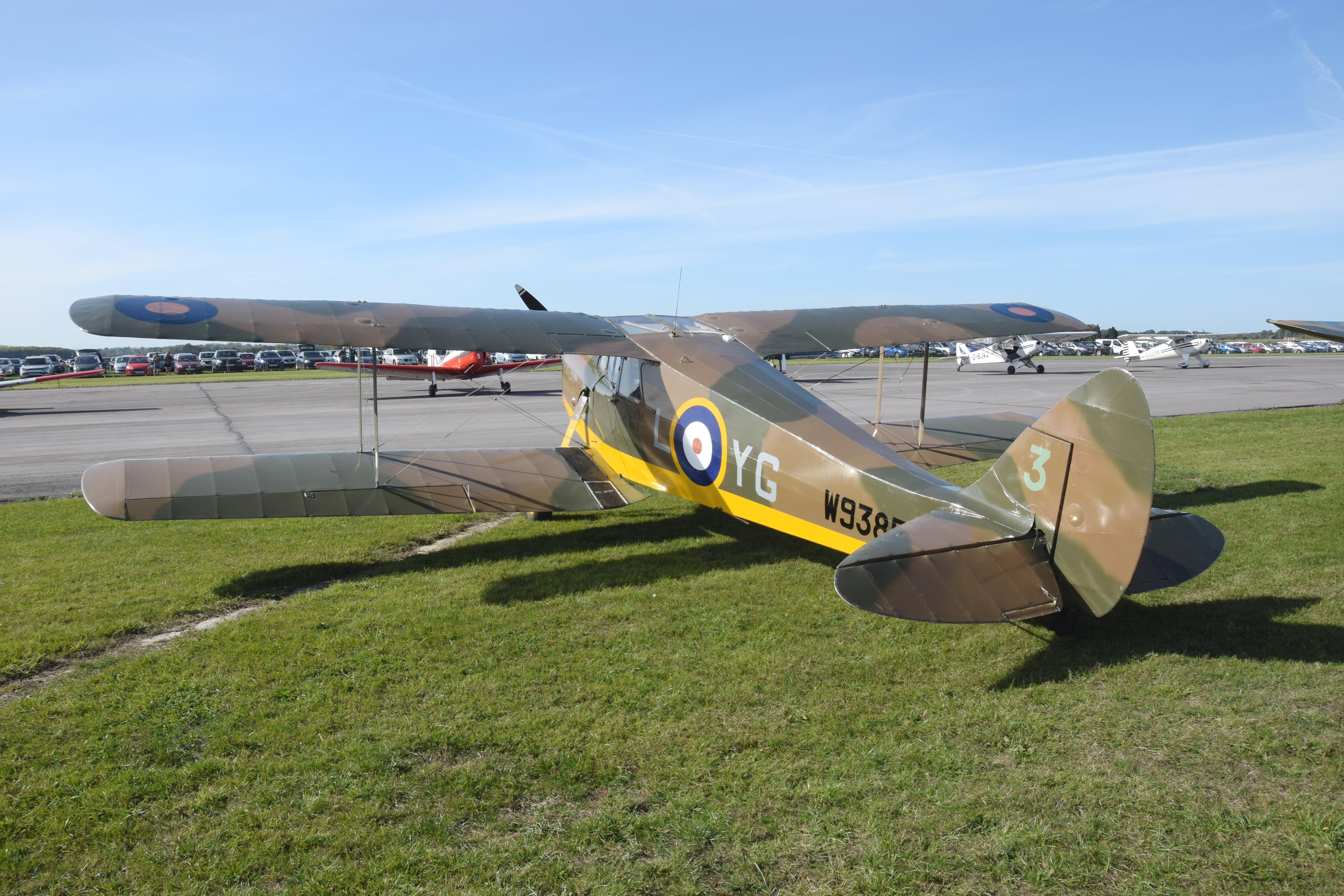 ex-RAF 1936 de Havilland DH.87B Hornet Moth at the 2018 Cotswold Airport Revival Festival, Gloucestershire, England. Delivered to Fairey Aviation in 1936 as a company hack. Was first aircraft ever to land at the newly built Manchester Airport in May 1937. Taken by the RAF at the outbreak of WW2 and used by No 3 Coastal Patrol Flight from 1940 to patrol coastal waters and scare U-boats into diving by their presence. Then to RAF St Athan (for I don’t know what use), then to Vickers Armstrong in 1945 as a company transport, then to the Shuttleworth Trust for 34 years. Finally to David and Sylvia Weston in 2005.